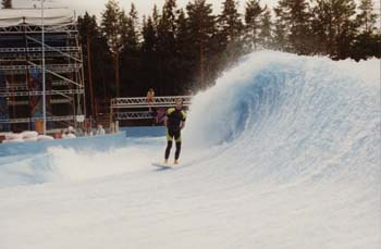 Tom Lochtefeld test-riding the first FlowBarrel at Telemark, Norway.